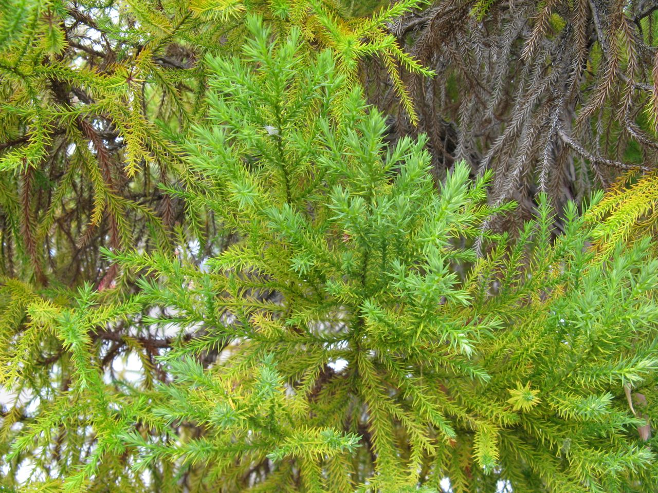 Juvenile foliage of Callitris macleayana, cultivated at the Australian National Botanic Gardens, Canberra